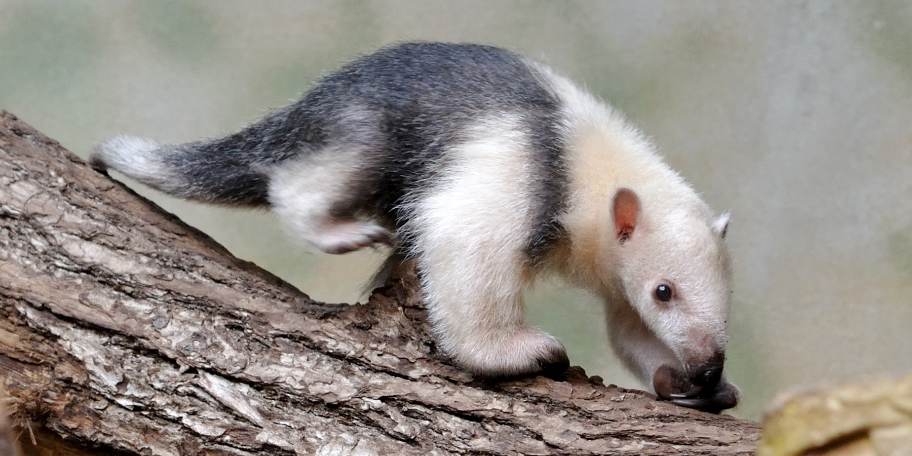 Southern Tamandua (Tamandua tetradactyla) in the Frankfurt Zoo.